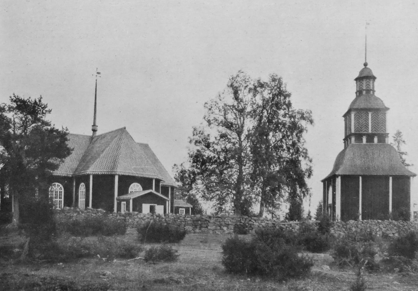 Old wooden church of Kiiminki, Finland, was built 1760 by Matti Honka.